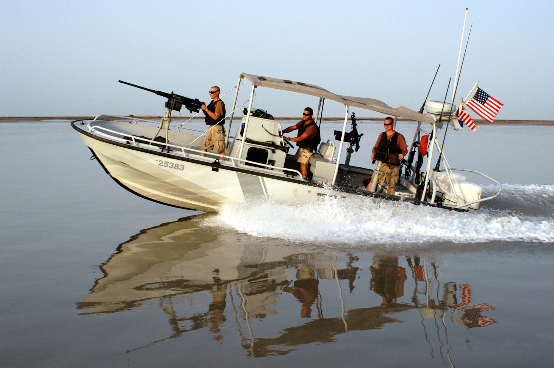 UMM QASR, Iraq (May 3, 2003)-- A U.S. Coast Guard 25-foot transportable port security boat assigned to PSU 311 skims the glassy surface of the Khawr 'Abd Allah as it heads upriver above Umm Qasr. Crewmembers include .50 caliber machinegunner Port Security 2nd Class Pat Hassel, coxswain Boatswain Mate 3rd Class A. J. White and M-60 machinegunner Port Securityman 2nd Class Mike Usrey. USCG photo by PA1 John Gaffney